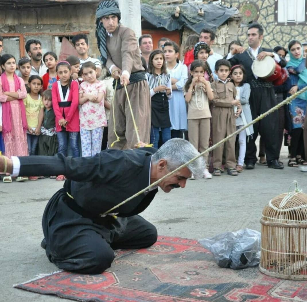 A street theatre in Daratfe a village near Mariwan, Kurdistan کوردی: شانۆیەکی سەرشەقام لە دەرەتفێ، مەریوان، کوردستان